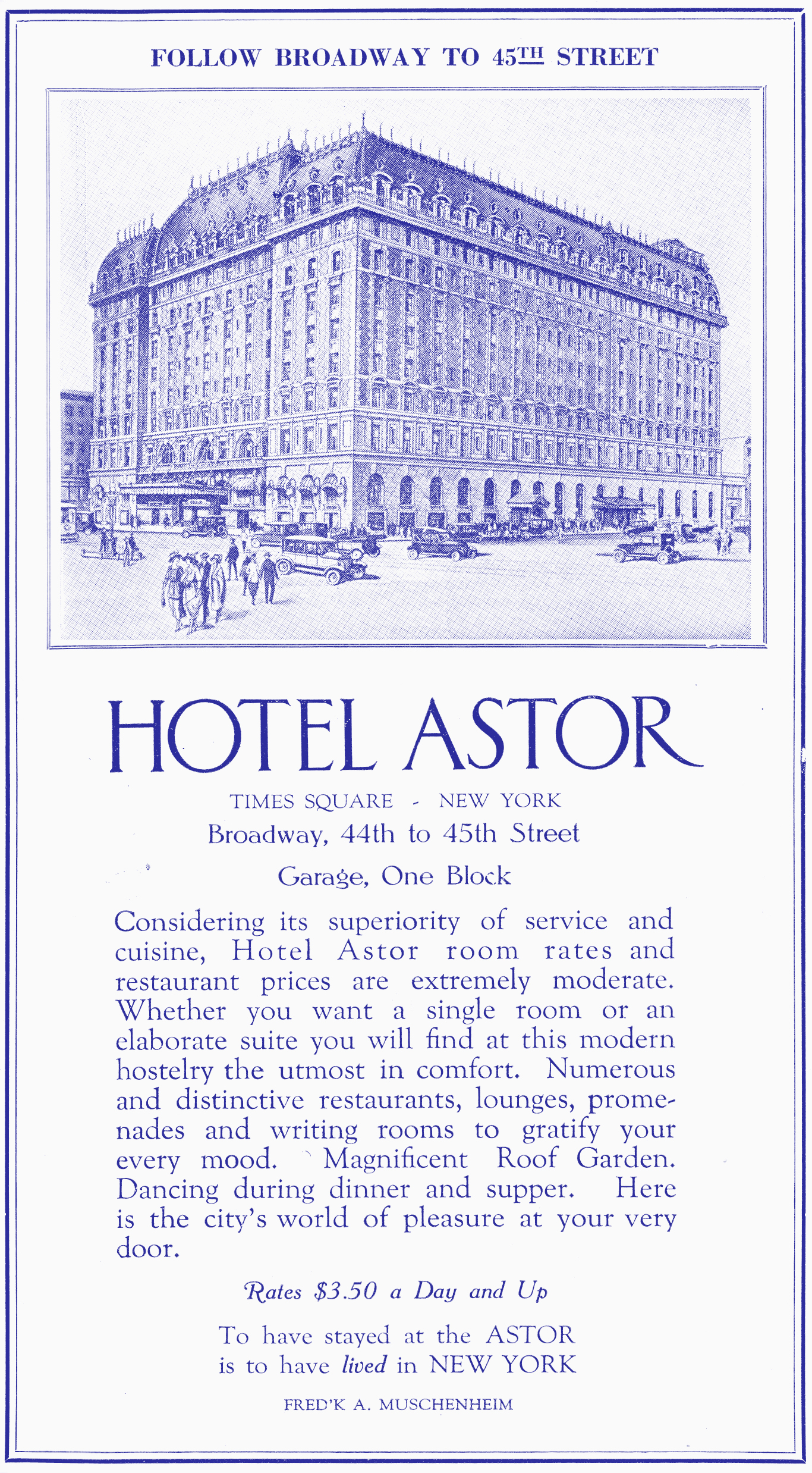 Hotel Astor, NY advertisement 1922